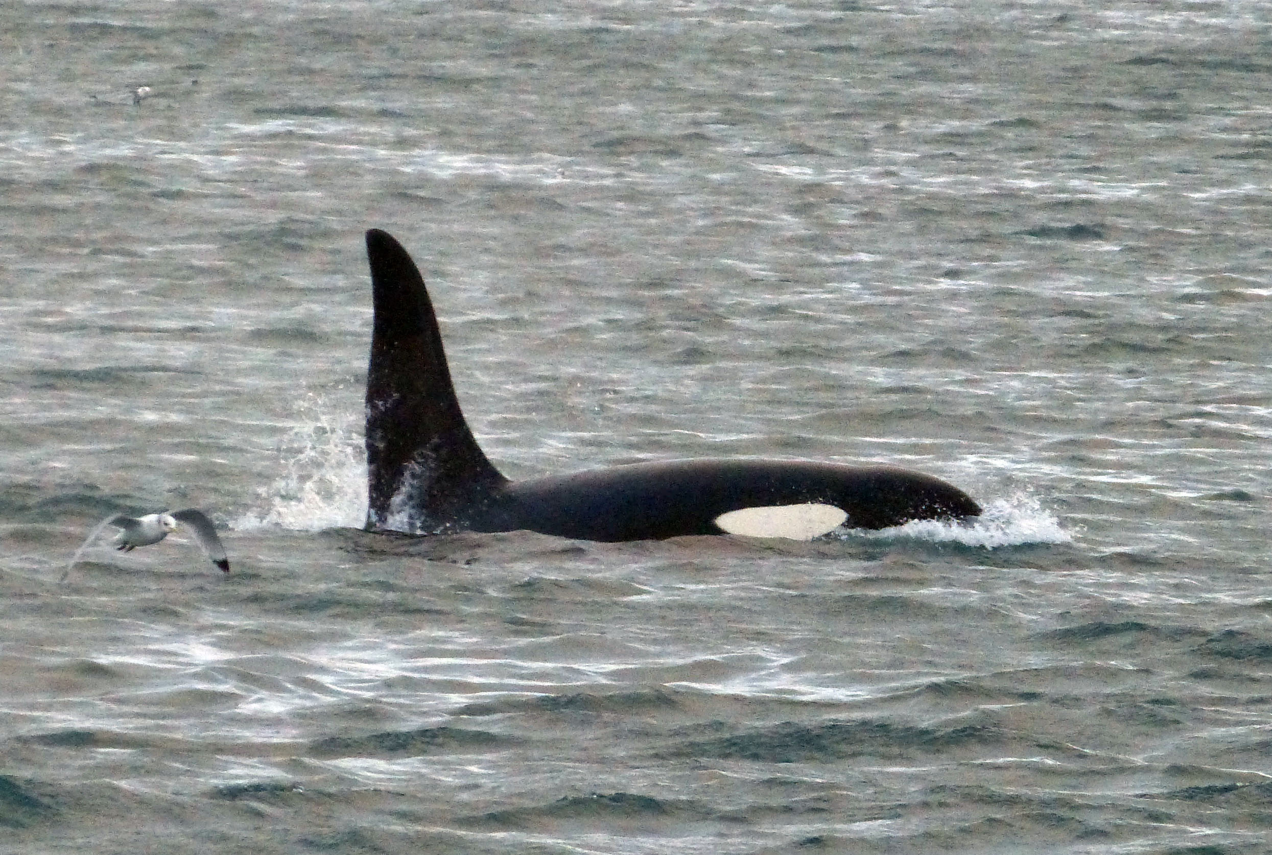 Orca Whale. Orcinus orca